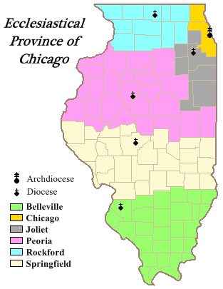 Diocesan map of the Catholic Ecclesiastical Province of Chicago.